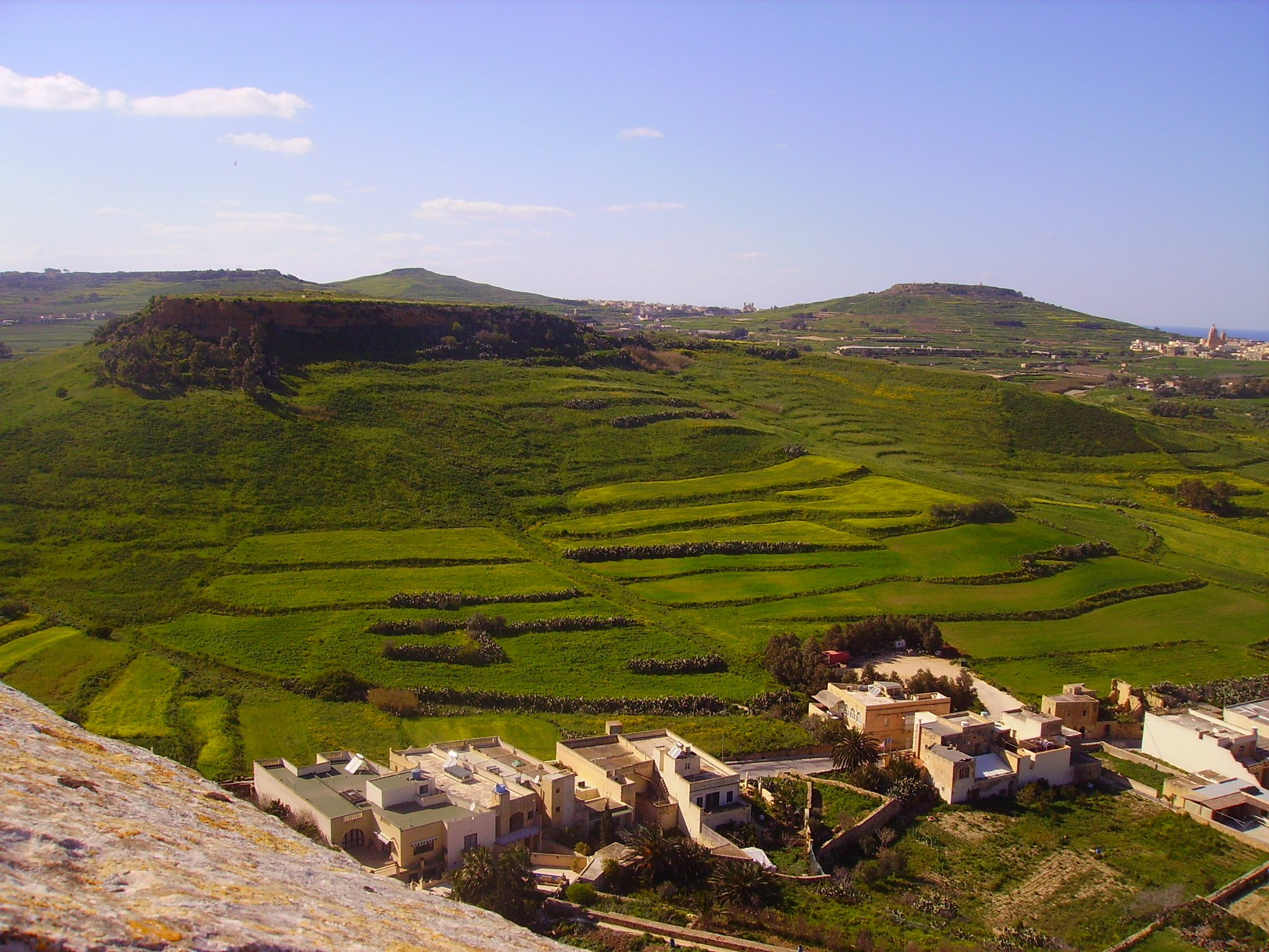 View from the Citadel, Victoria